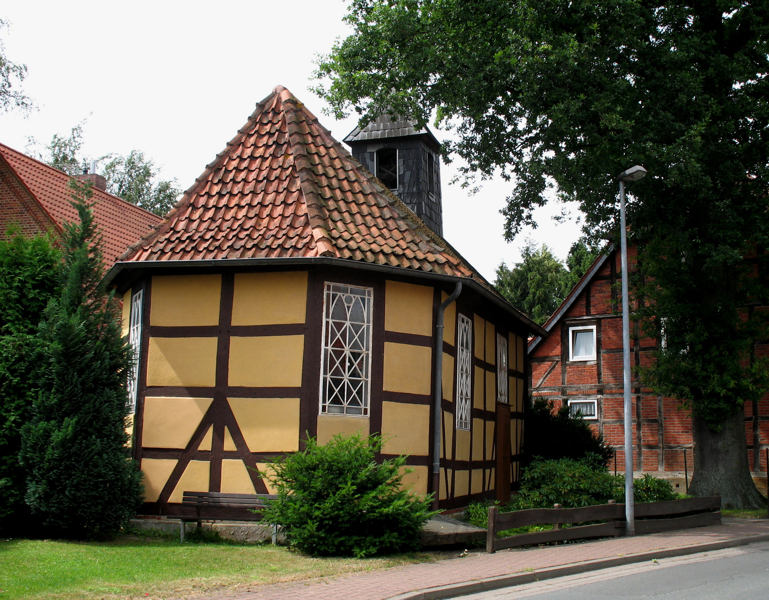 The church in Redderse, Lower Saxony, Germany